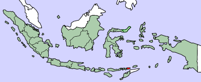 Location map for island of Alor in Indonesia. From Image:IndonesiaNorthSulawesi.png, Uploaded by User:Morwen. edited by J. Patrick Fischer